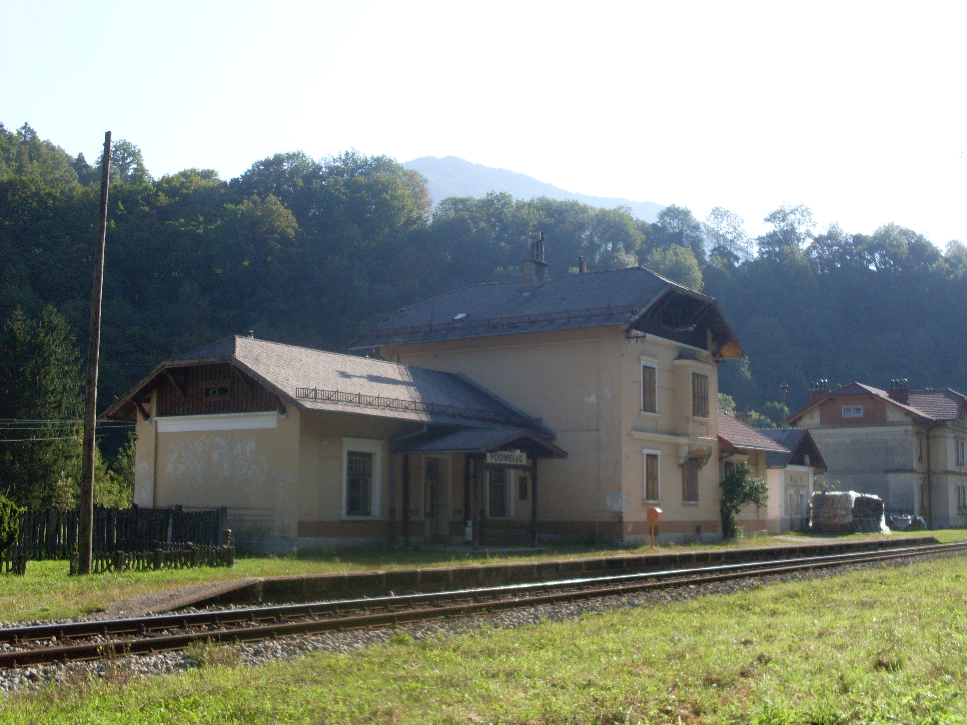 Railway halt Podmelec, actually located in KlavžeSlovenščina: Železniško postajališče Podmelec, ki se pravzaprav nahaja v Klavžah